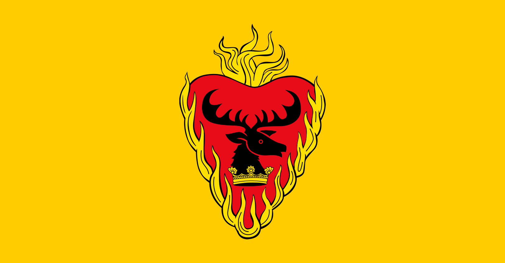 Flag of House Baratheon of Dragonstone under King Stannis.